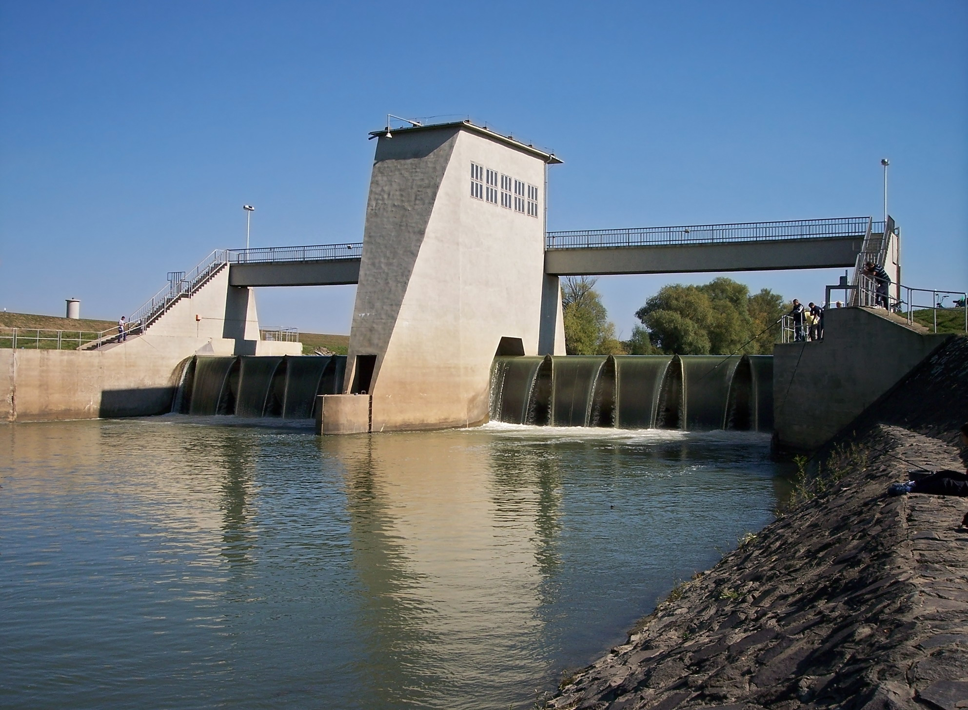 Floodgate in Békés (Hungary)